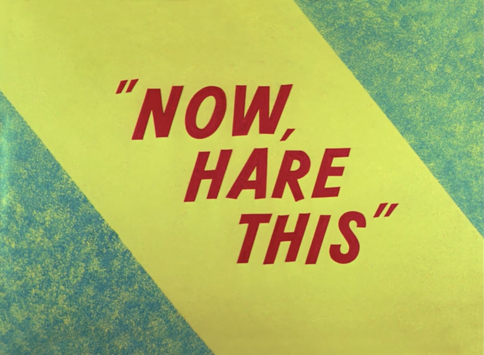 Title card of the Bugs Bunny short film "Now Hare This."